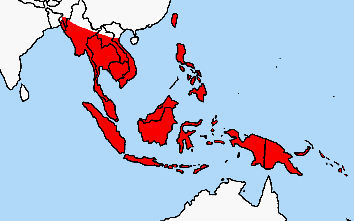 Polynesian Rat or Pacific Rat (Rattus exulans), map of distribution in South East Asia